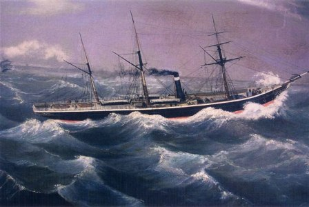 SS Admella, by Shaw, James (1815 - 1881), 1858 - oil on canvas; Courtesy of the Art Gallery of South Australia